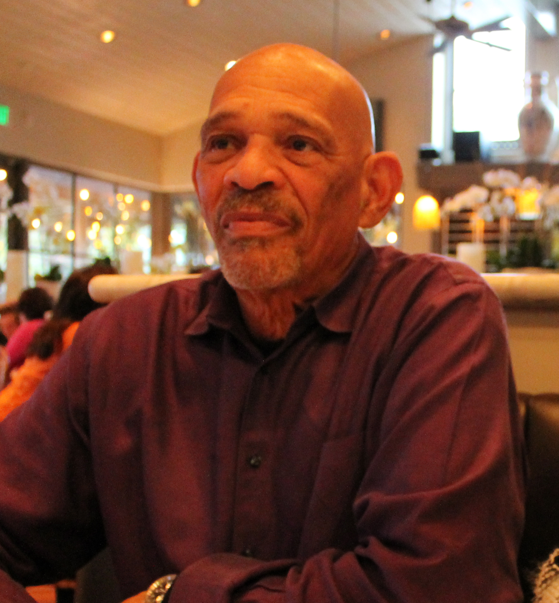 Drummer Kester Smith. January 2012. Personality rights warning Although this work is freely licensed or in the public domain, the person(s) shown may have rights that legally restrict certain re-uses unless those depicted consent to such uses. In these cases, a model release or other evidence of consent could protect you from infringement claims.